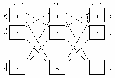 Three-stage clos network